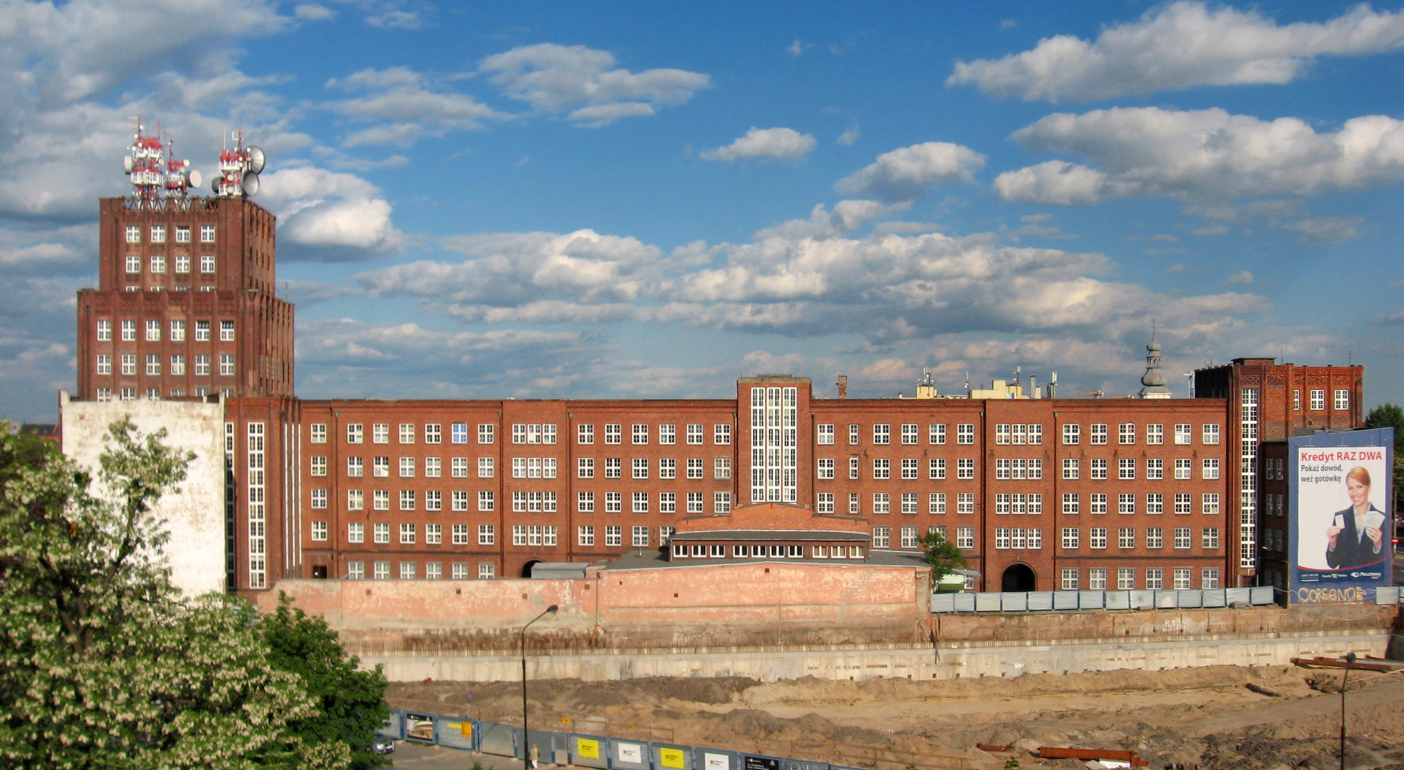 Post and Telecommunications Museum in Wrocław.